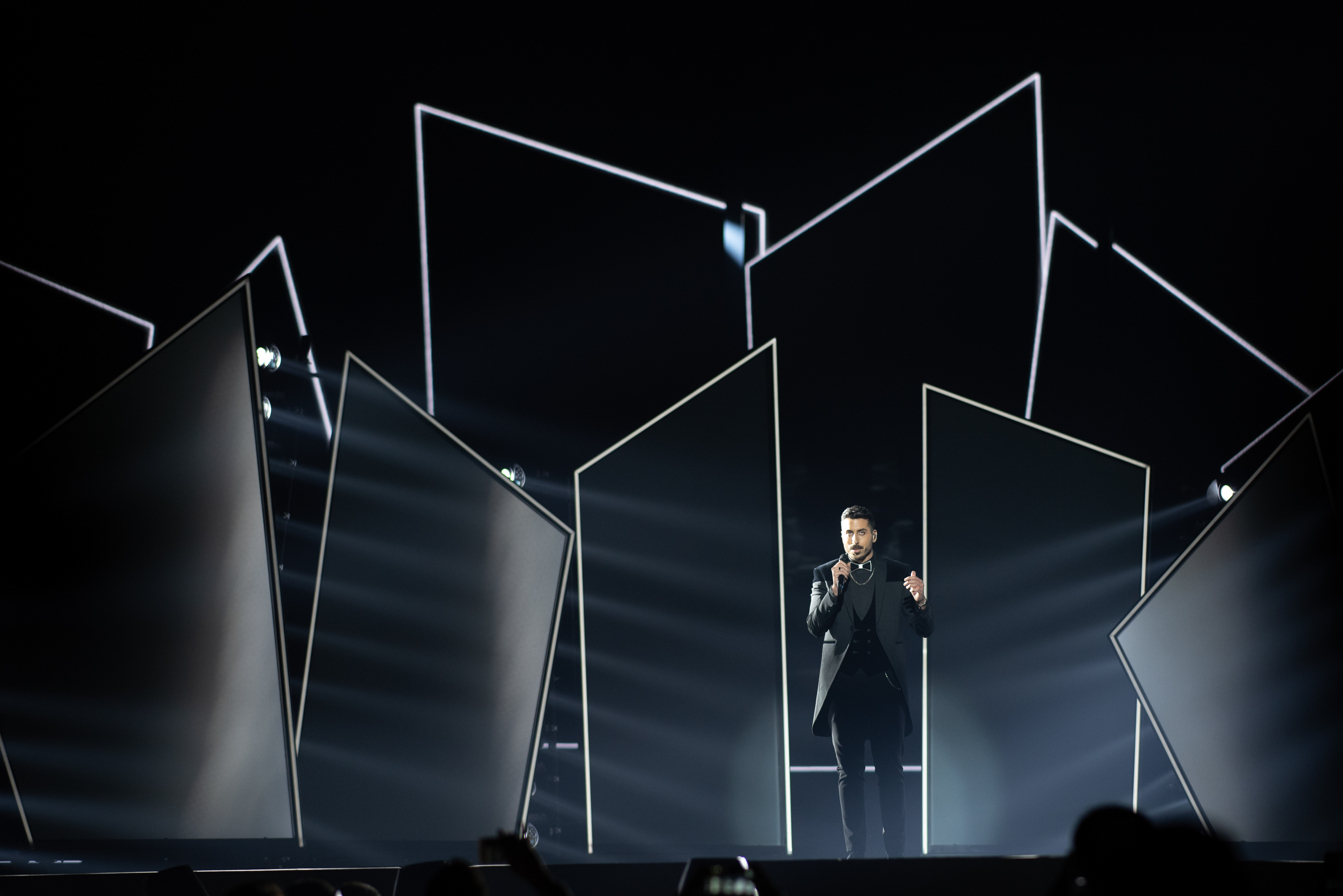 At the 2019 Eurovision Song Contest Grand Final Dress Rehearsal